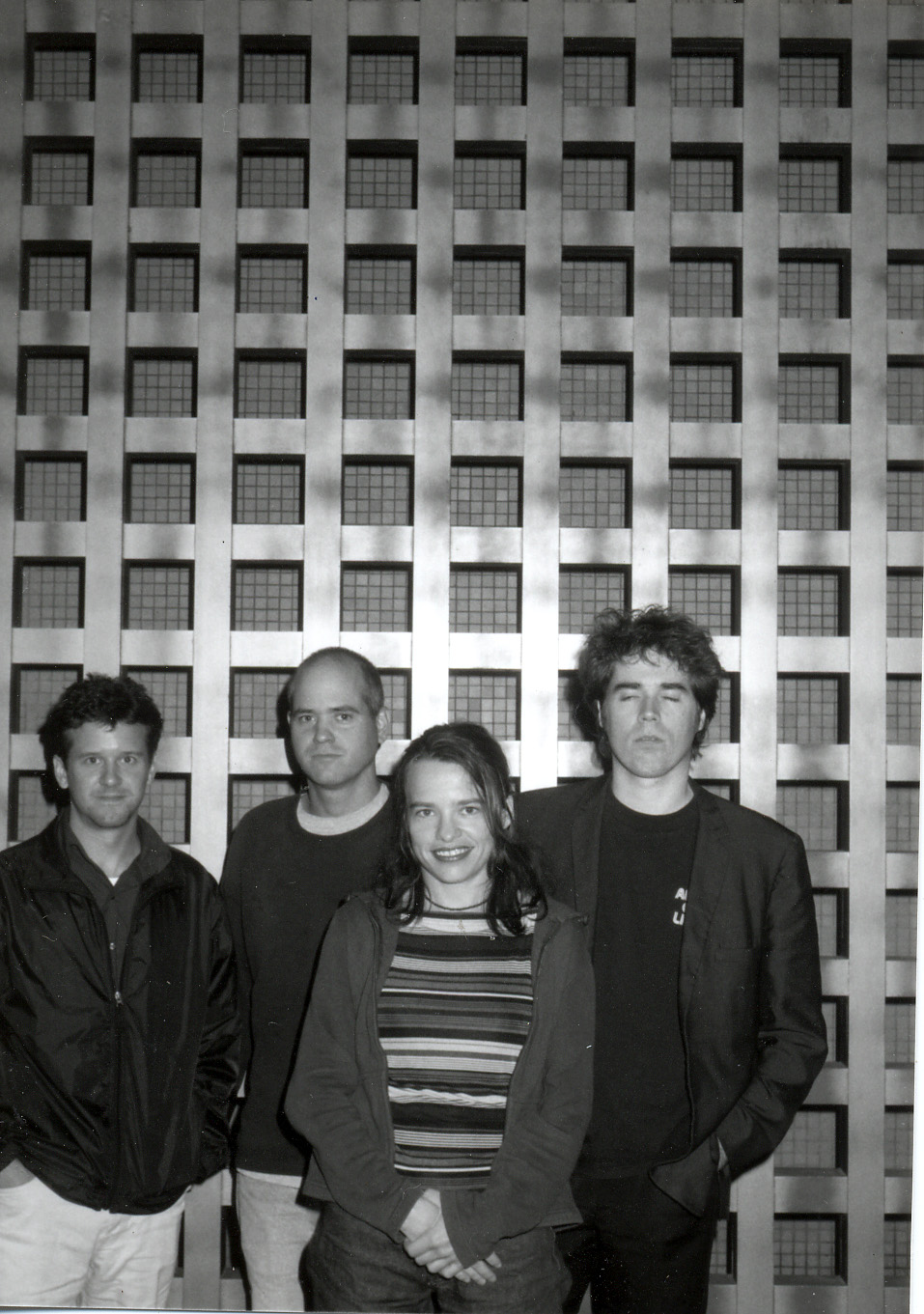 Superchunk, on tour in Tokyo, Japan